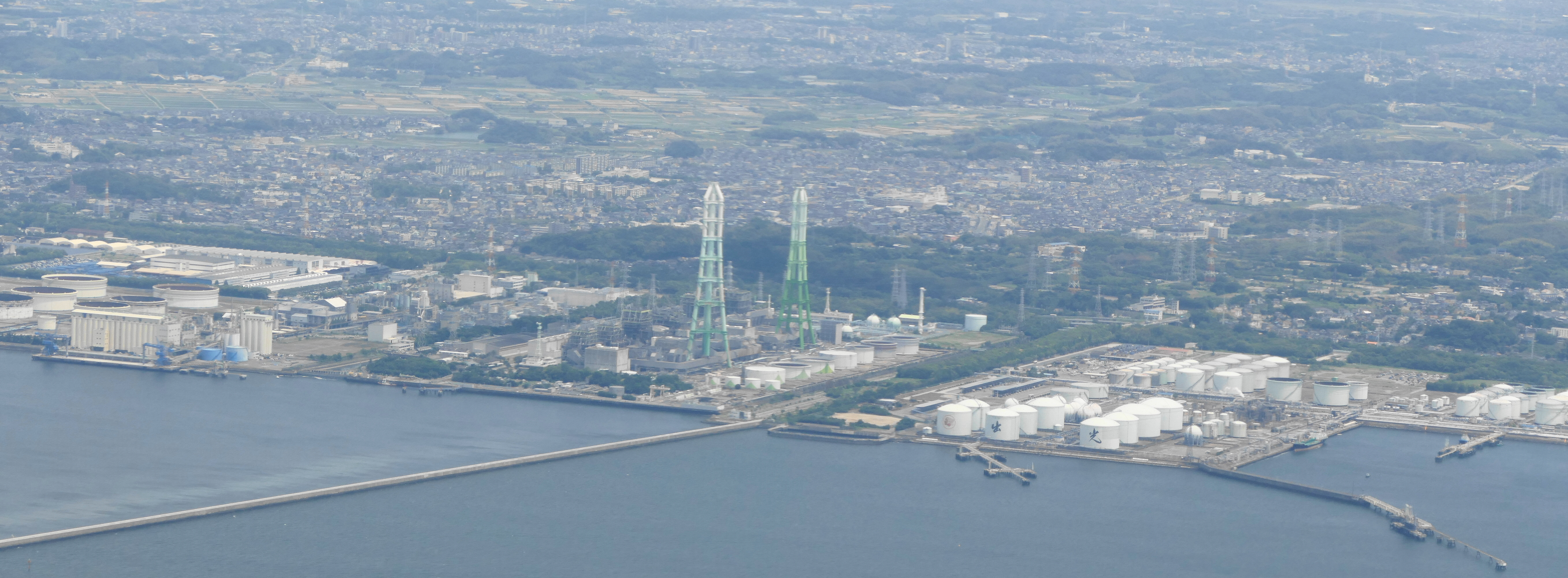 Chita thermal power plant as seen from the sky,Aichi prefecture, Japan